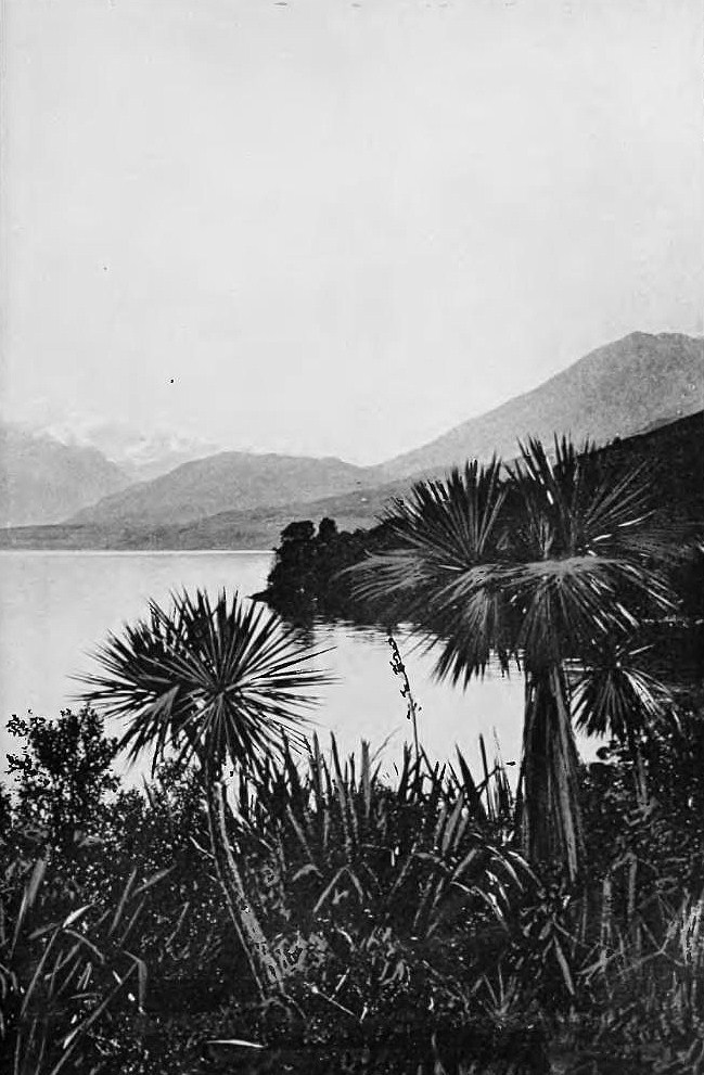 Image from scanned version of the PD book Picturesque New Zealand by Paul Gooding published in 1913